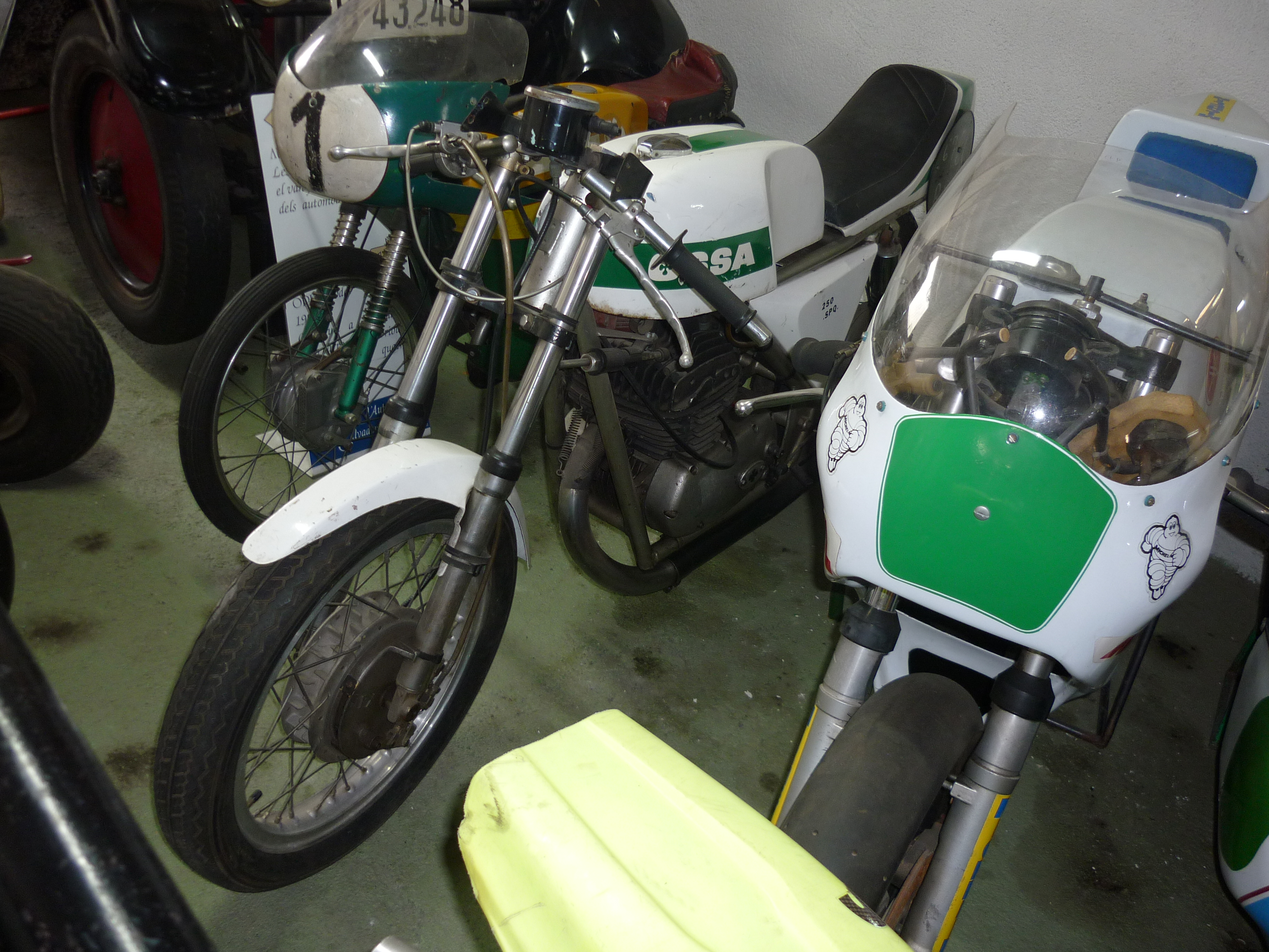 In the middle: Ossa SPQ, OSSA Seurat Piron Queyrel. Produced in France in the 1970s